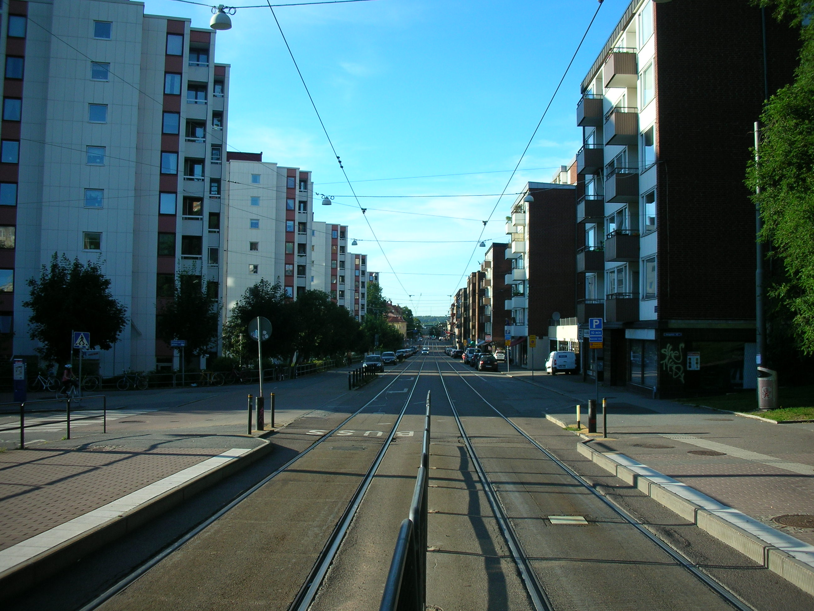 Bangatan, view from tram station, fjällgatan.